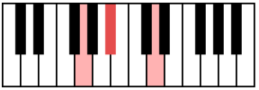 g minor chord